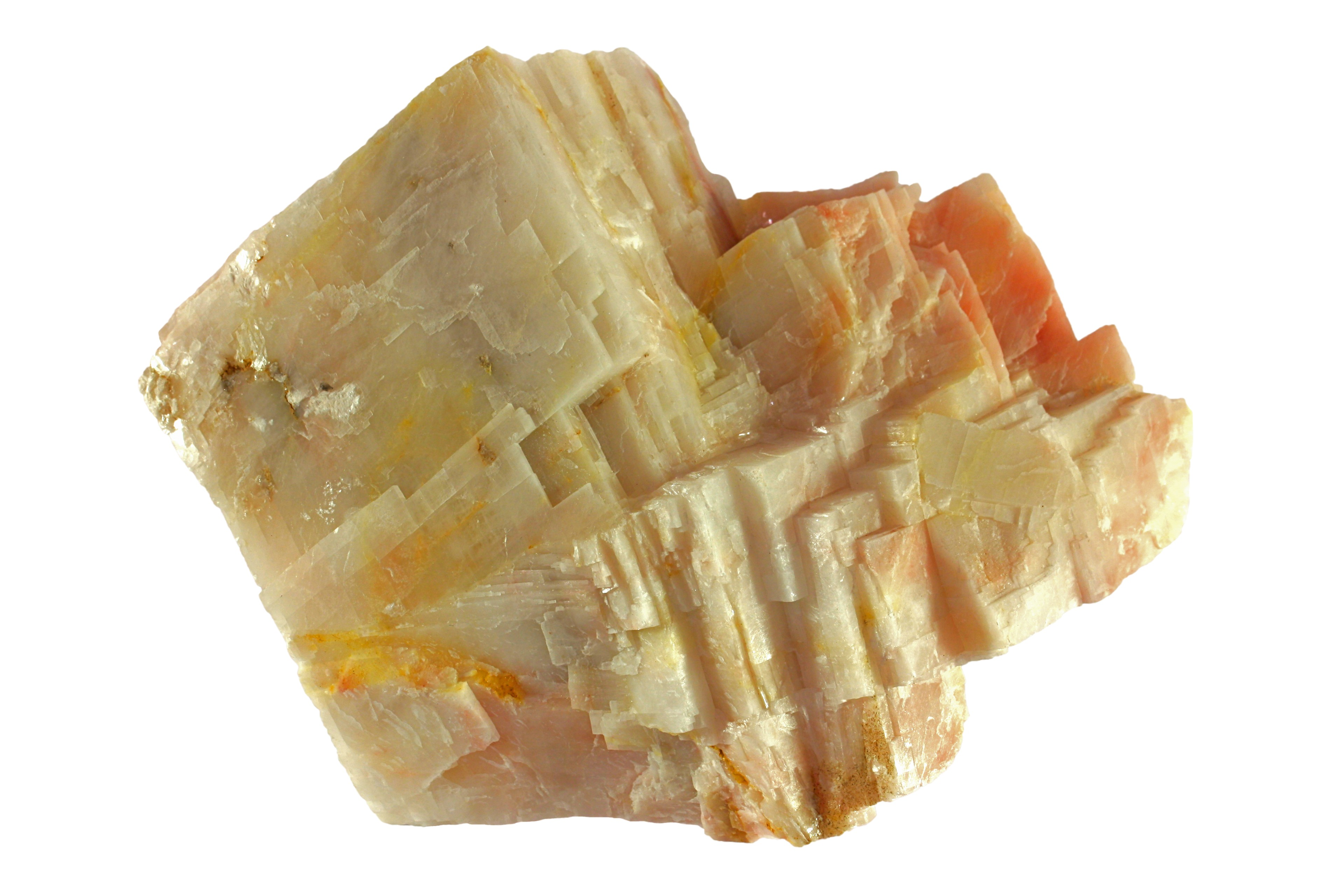 Calcite crystals showing rhombohedral cleavage. The width of the sample is 12 cm. Additional information from the source: [2]